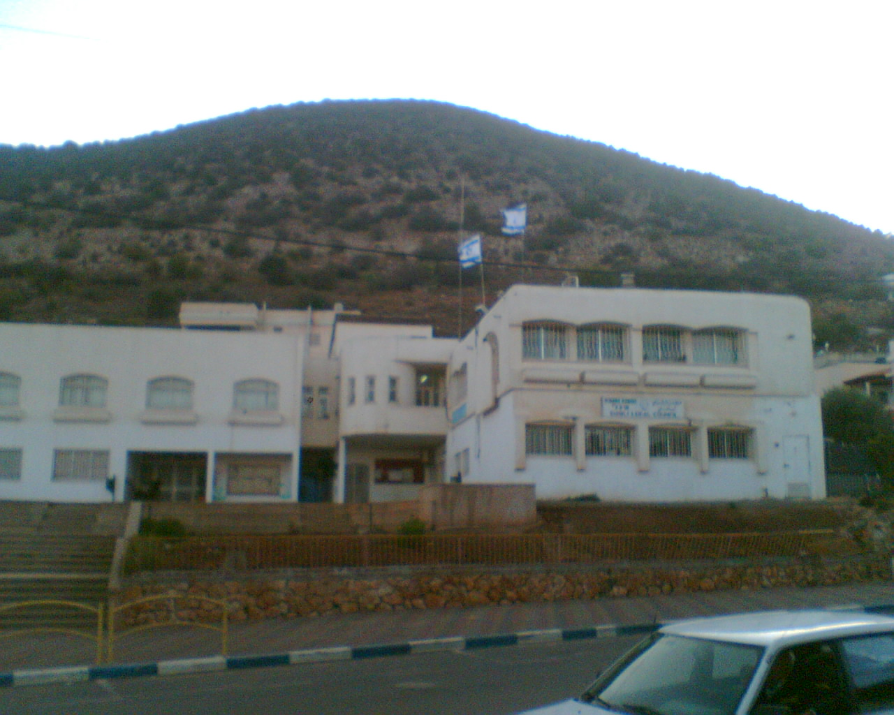 Shibli-Umm al-Ghanam local counsil